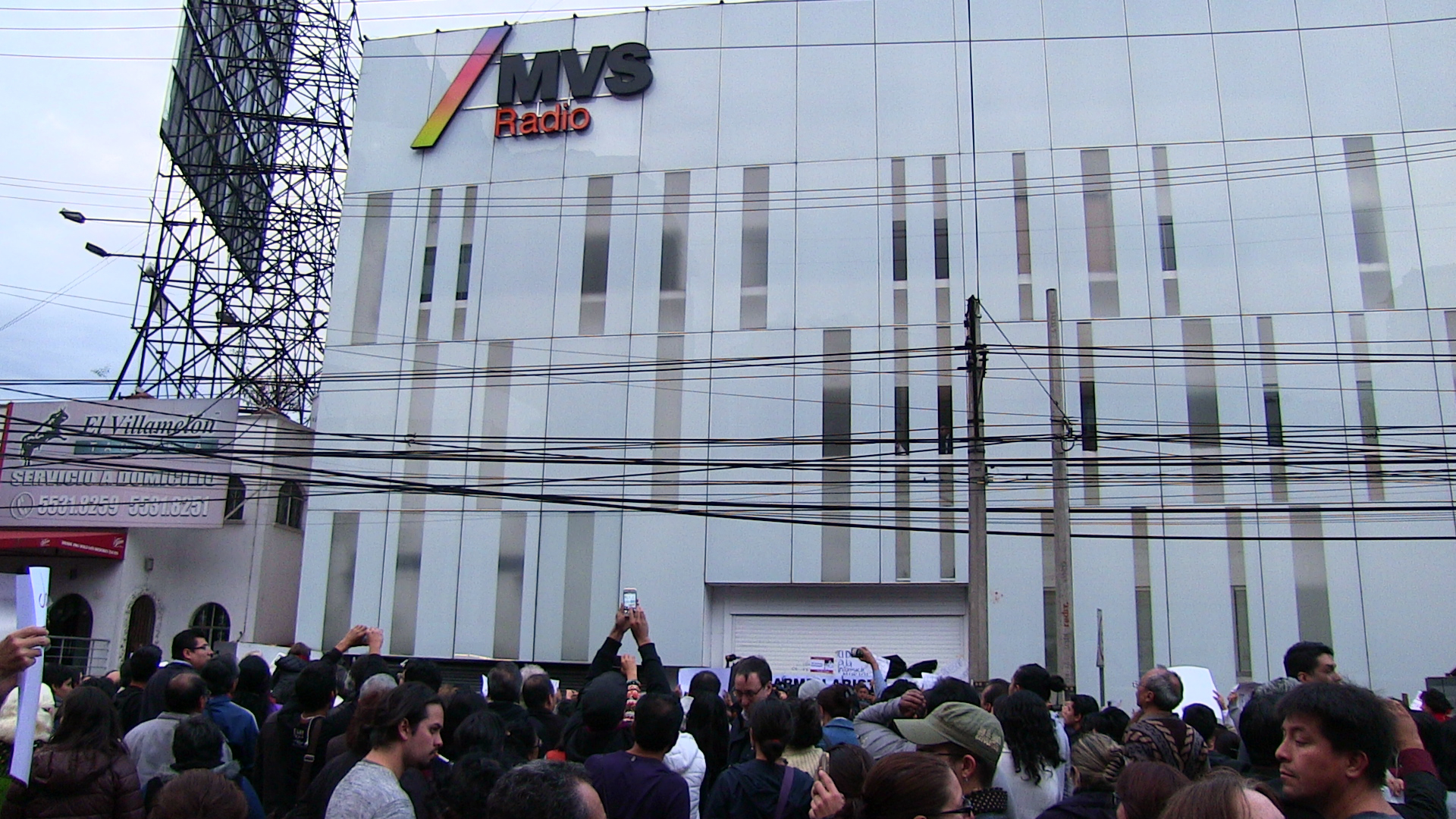 Demonstration for dismissal of Carmen Aristegui at MVS offices in Avenida Mariano Escobedo, Mexico City.